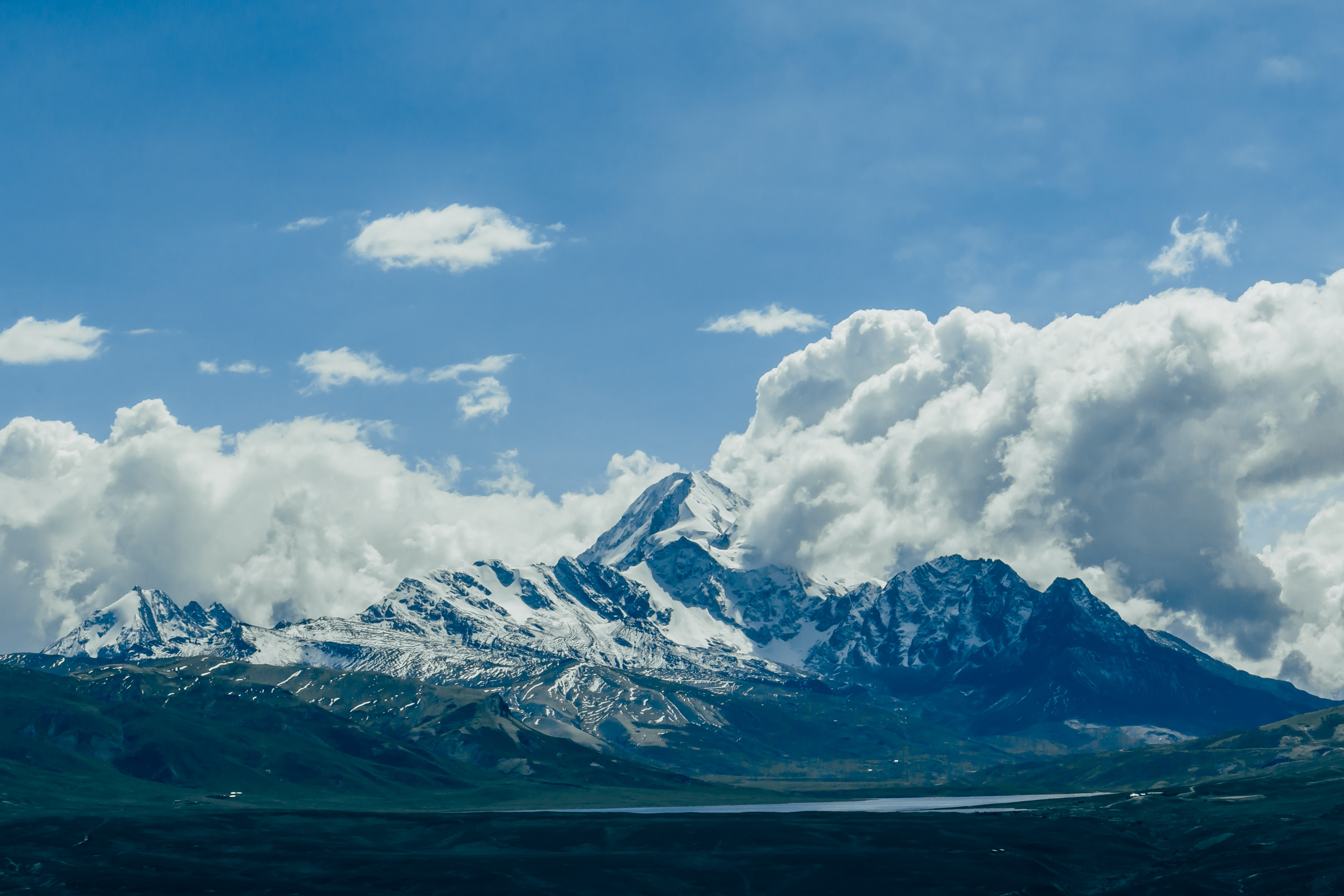 Huayna Potosi Mountain La Paz, Bolivia 6088 Meters over the sea